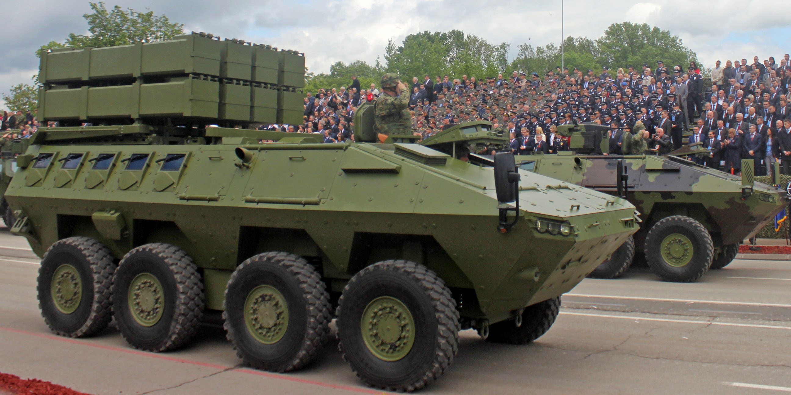 New RALAS antitank missile mounted on Lazar combat vehicle at military parade in Niš.